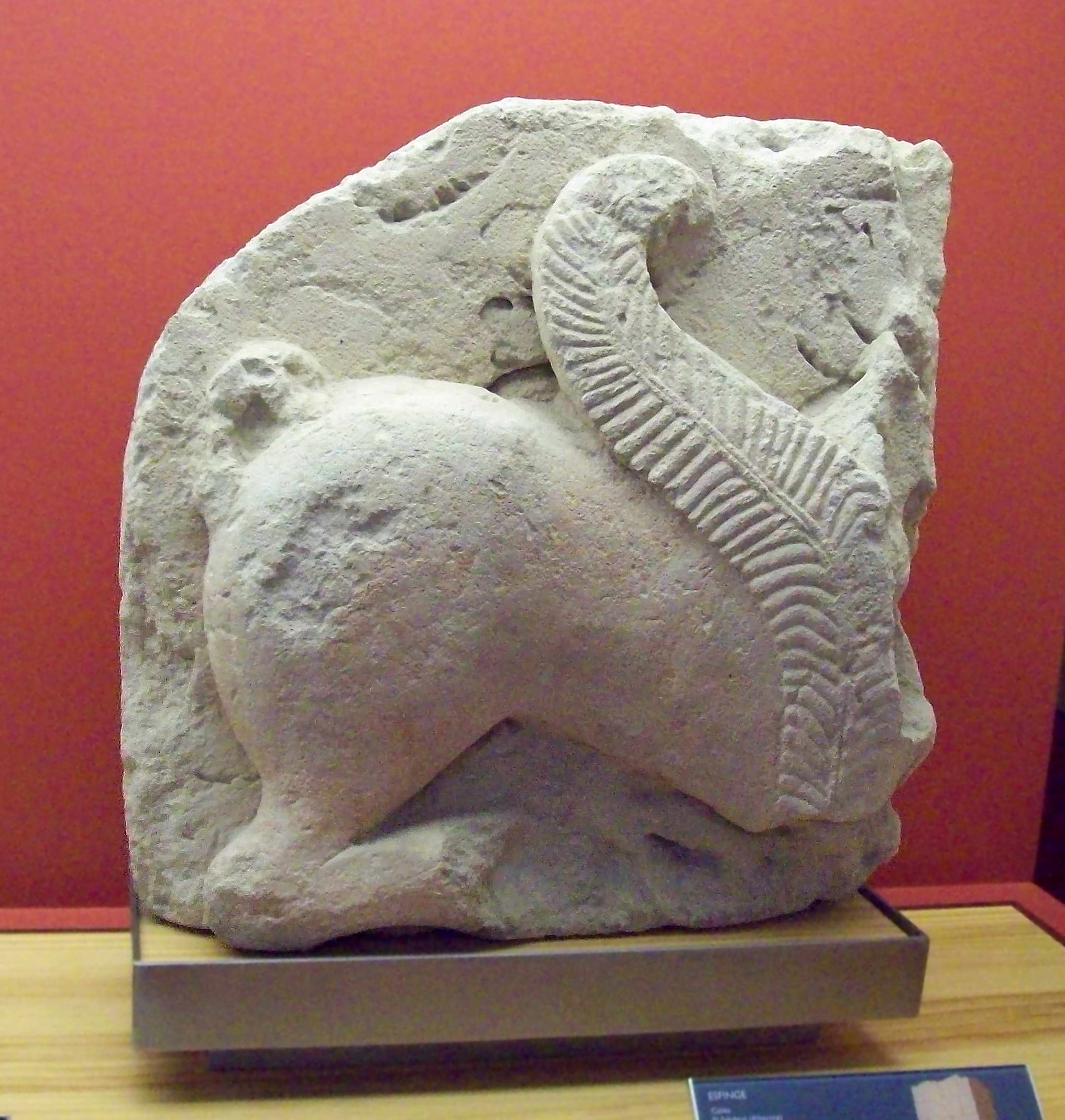 Iberian ashlar with a relief representing a sphinx.